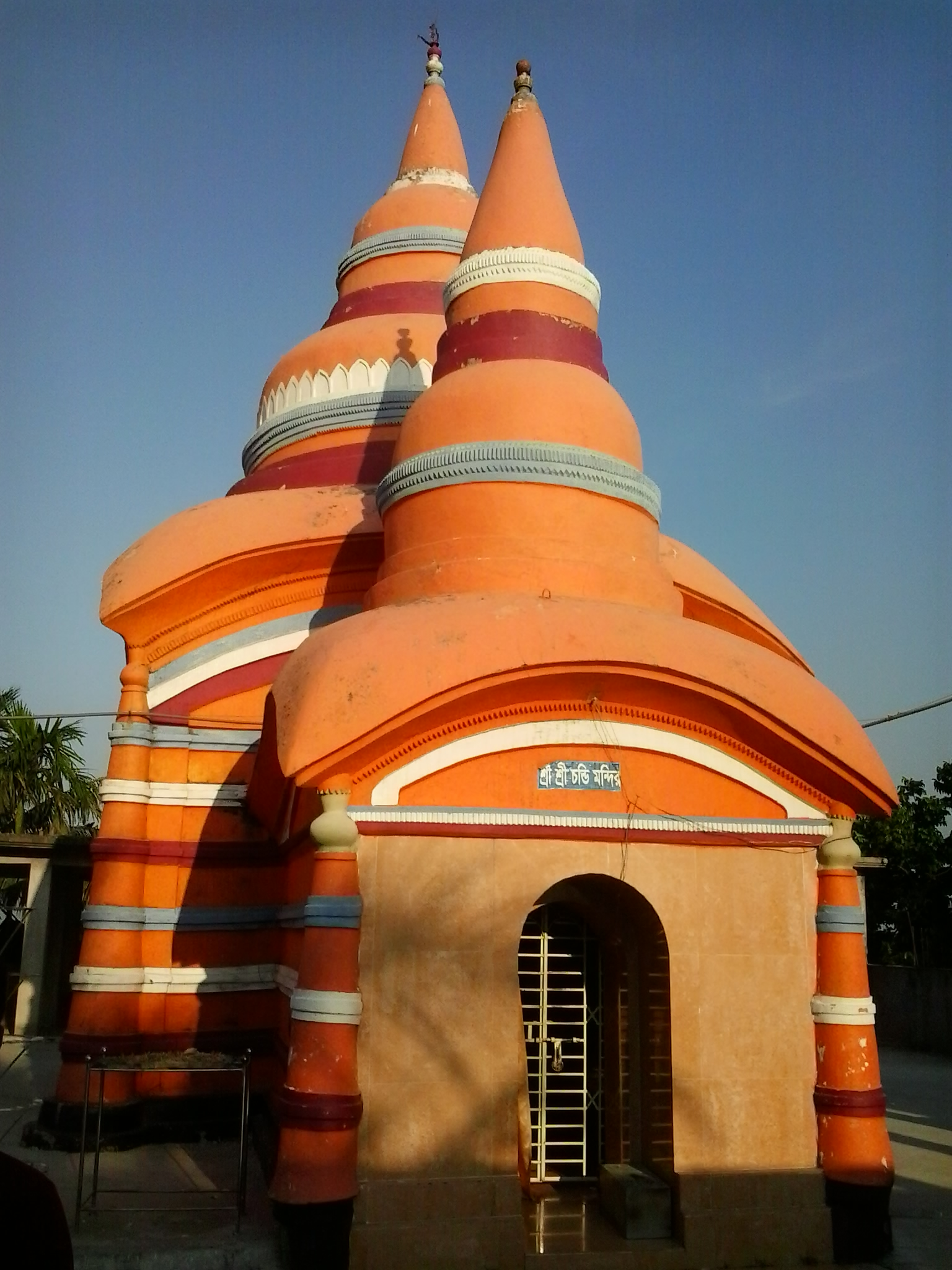 Chondimura temple, Lalmai hill, Comilla